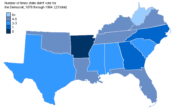 A map of the states of the "Democratic Solid South" showing their voting patterns from 1876 through 1964.